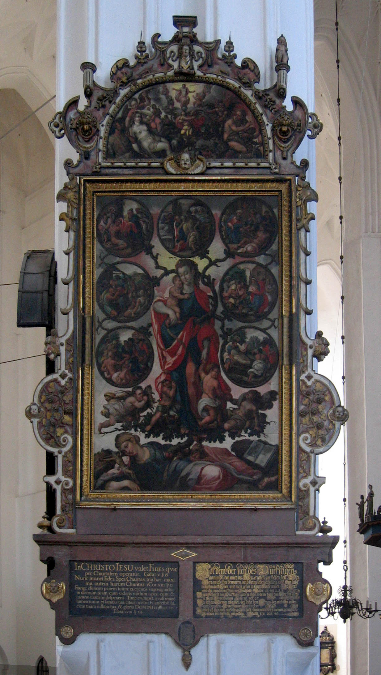 Anton Möller, "Alms-Panel" (1607) in Gdańsk, St. Mary's Church